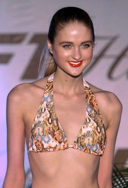 Miss Earth NZ 2013 at F1 Hotel Swimsuit competition